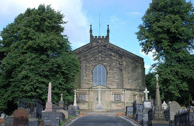 St Andrew's parish church, Netherton, West Midlands, seen from the southeast